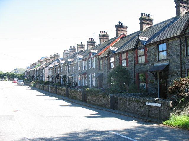 Rhes Victoria Terrace, Nantlle Every slate quarrying village has its Victoria Terrace. They are invariably well constructed houses built around 1900 for the better off quarrymen and their families.